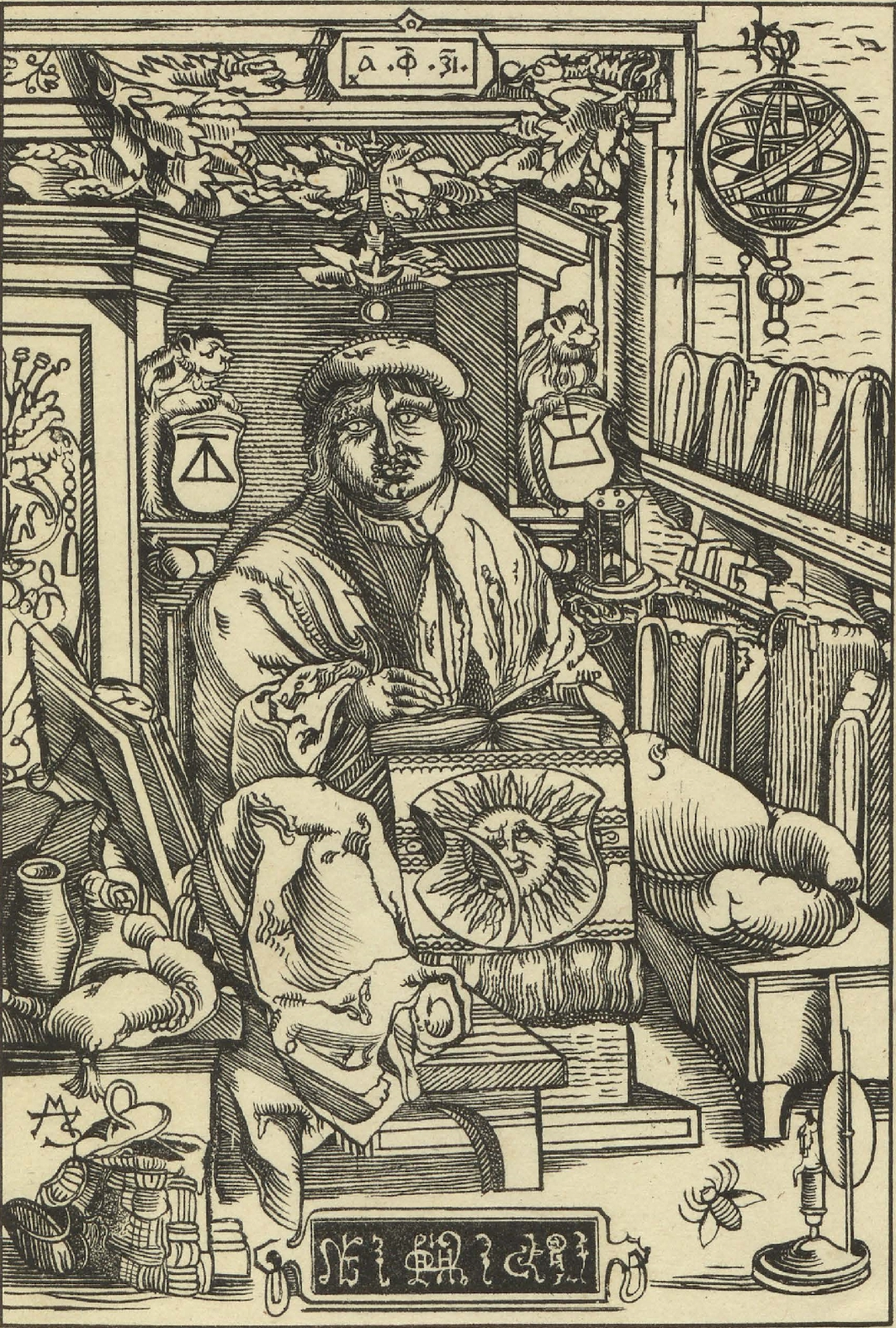 Graving with Francysk Skorina